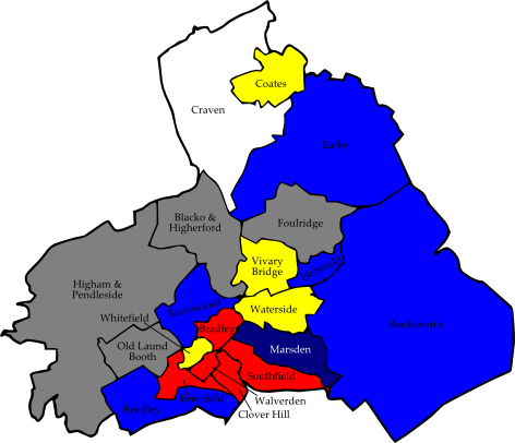 A map of the results of the 2008 Pendle Council election. Colour legend by wards won: Conservative party Labour party Liberal Democrats British National Party Independent Wards in grey were not contested in 2008.